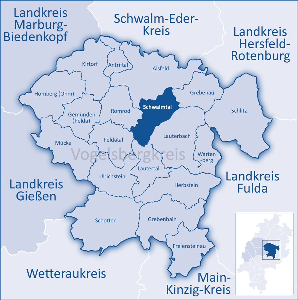 The map shows a district in the area of Vogelsbergkreis